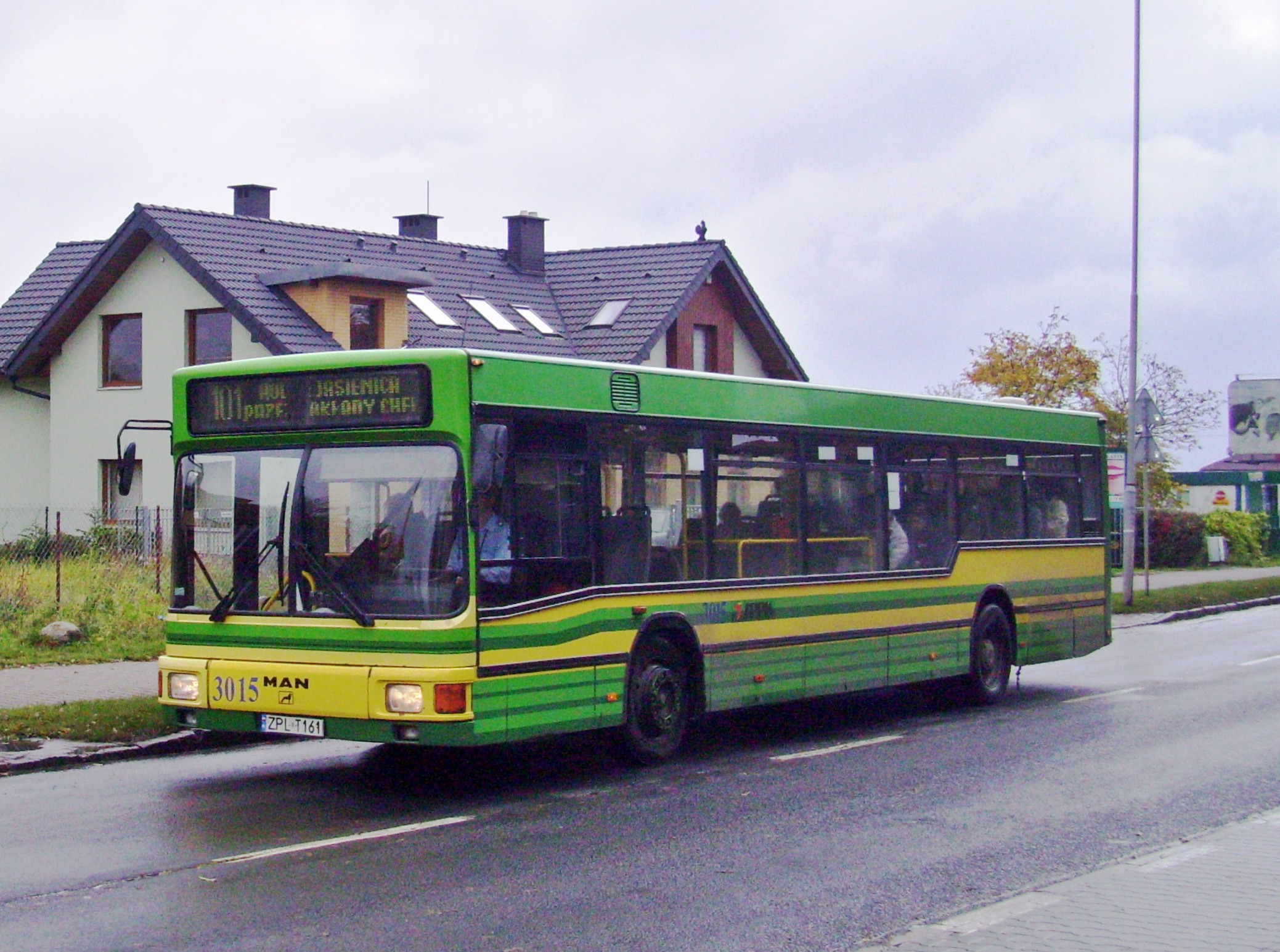 MAN NL222 (#3015) bus in Poland. Built 1999, SPPK Police operator.